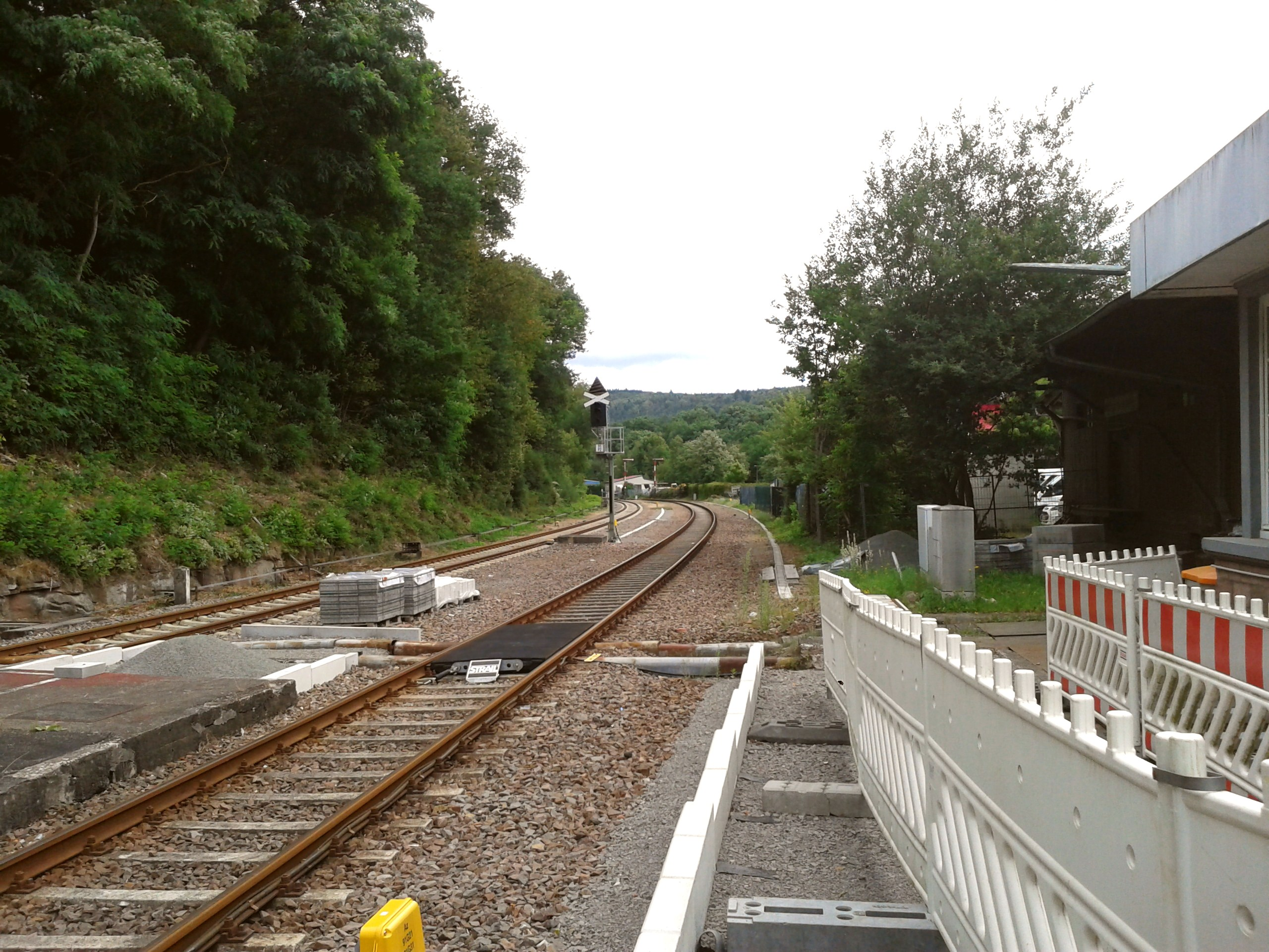 Railway station Waldfischbach-Burgalben in July 2017. Installation of new light signals.